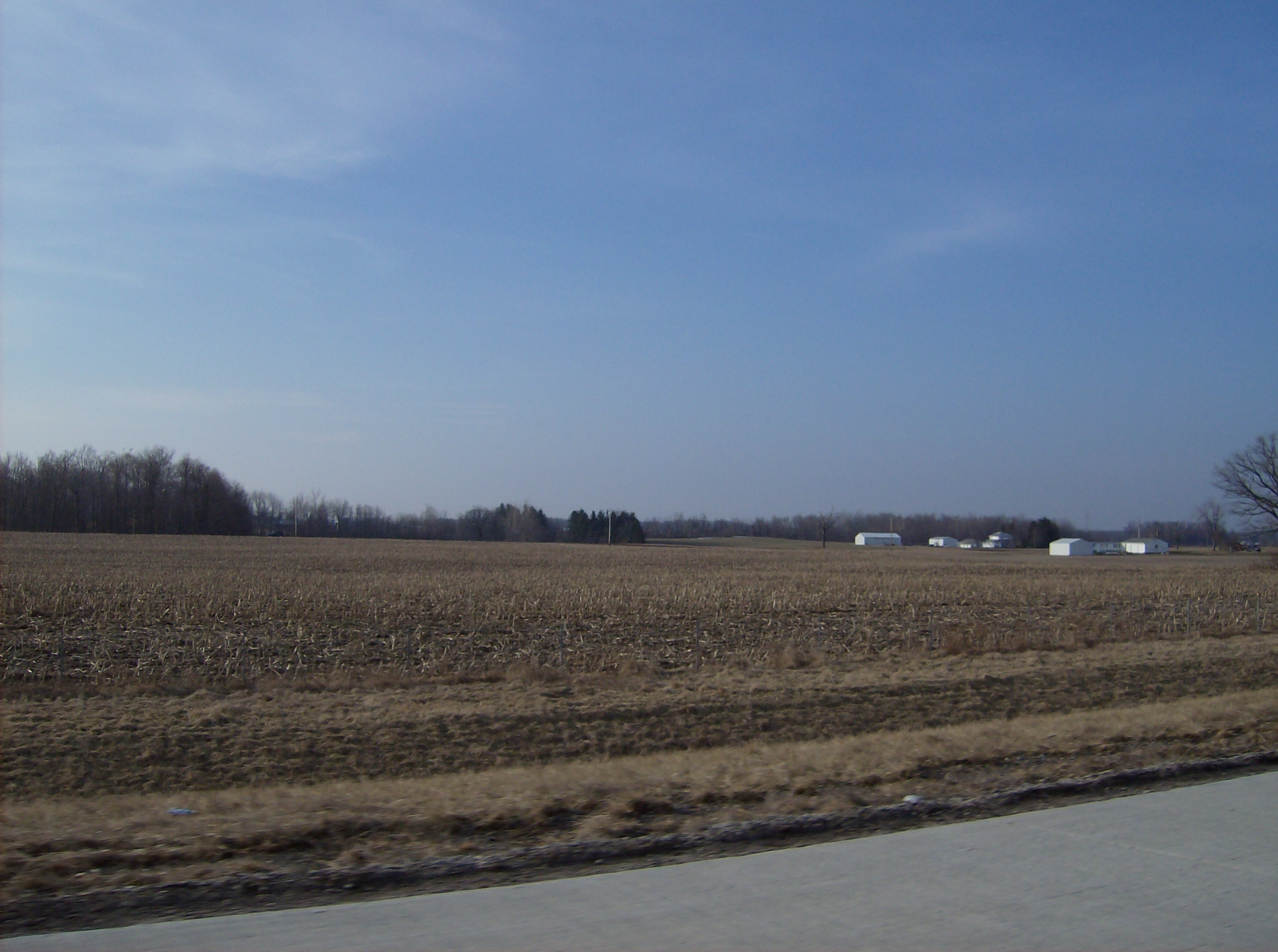 View of farmland in Tod Township, Crawford County, Ohio, United States. Picture taken from U.S. Route 30.